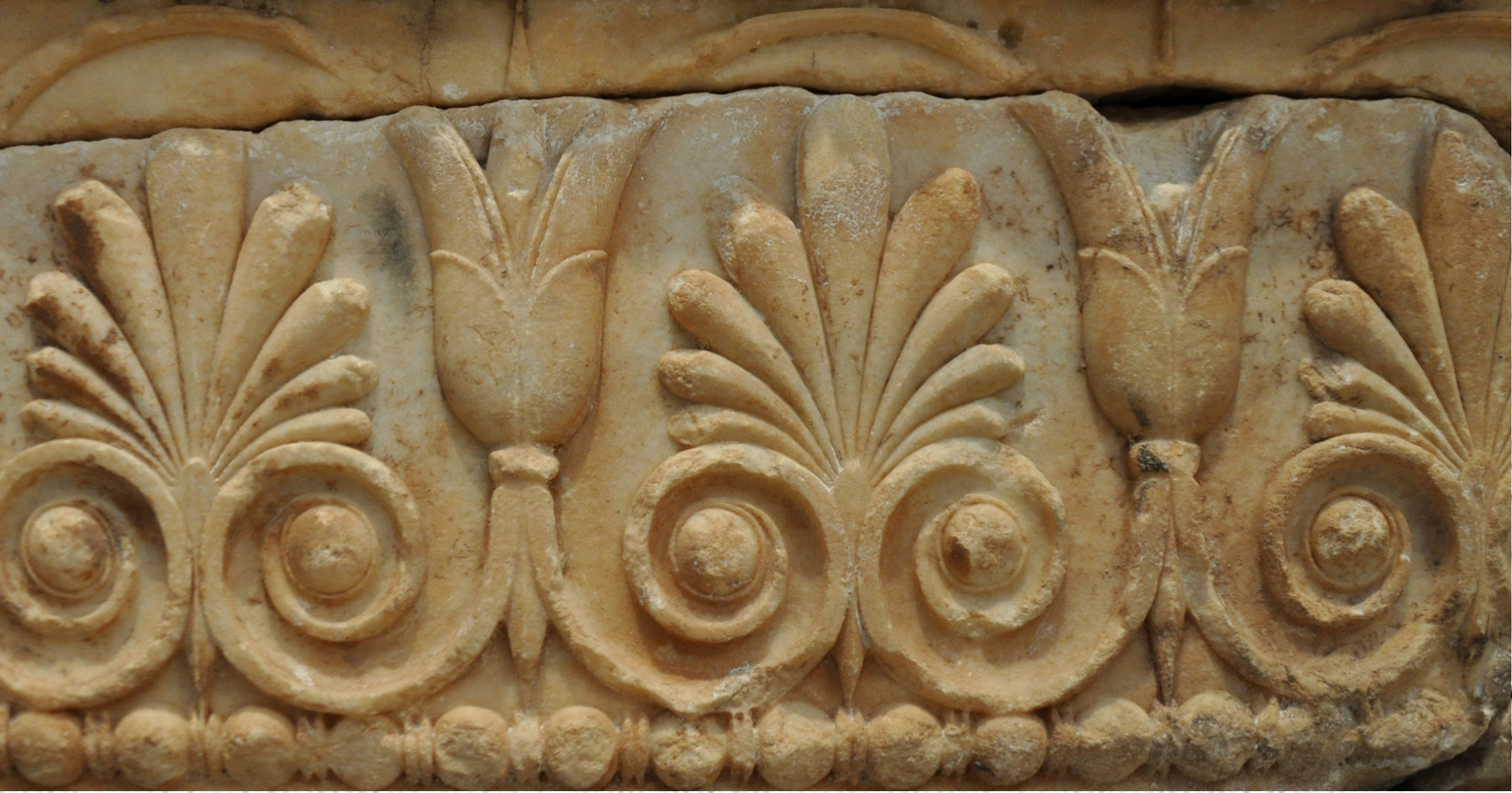 Frieze from Delphi lotus with multiple calyx. Detail of this file: Actual image: treasury of the Siphnians frieze 525 BCE.